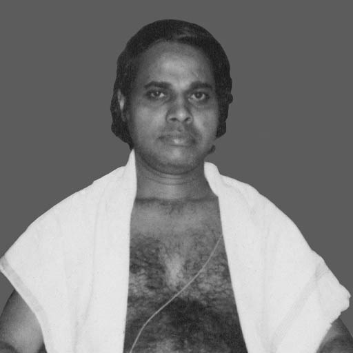 Mani Damodara Chakyar Author: Sreekanth. V (Sreekanthv). Source:It is from his personal collections. It was me who took the photo.